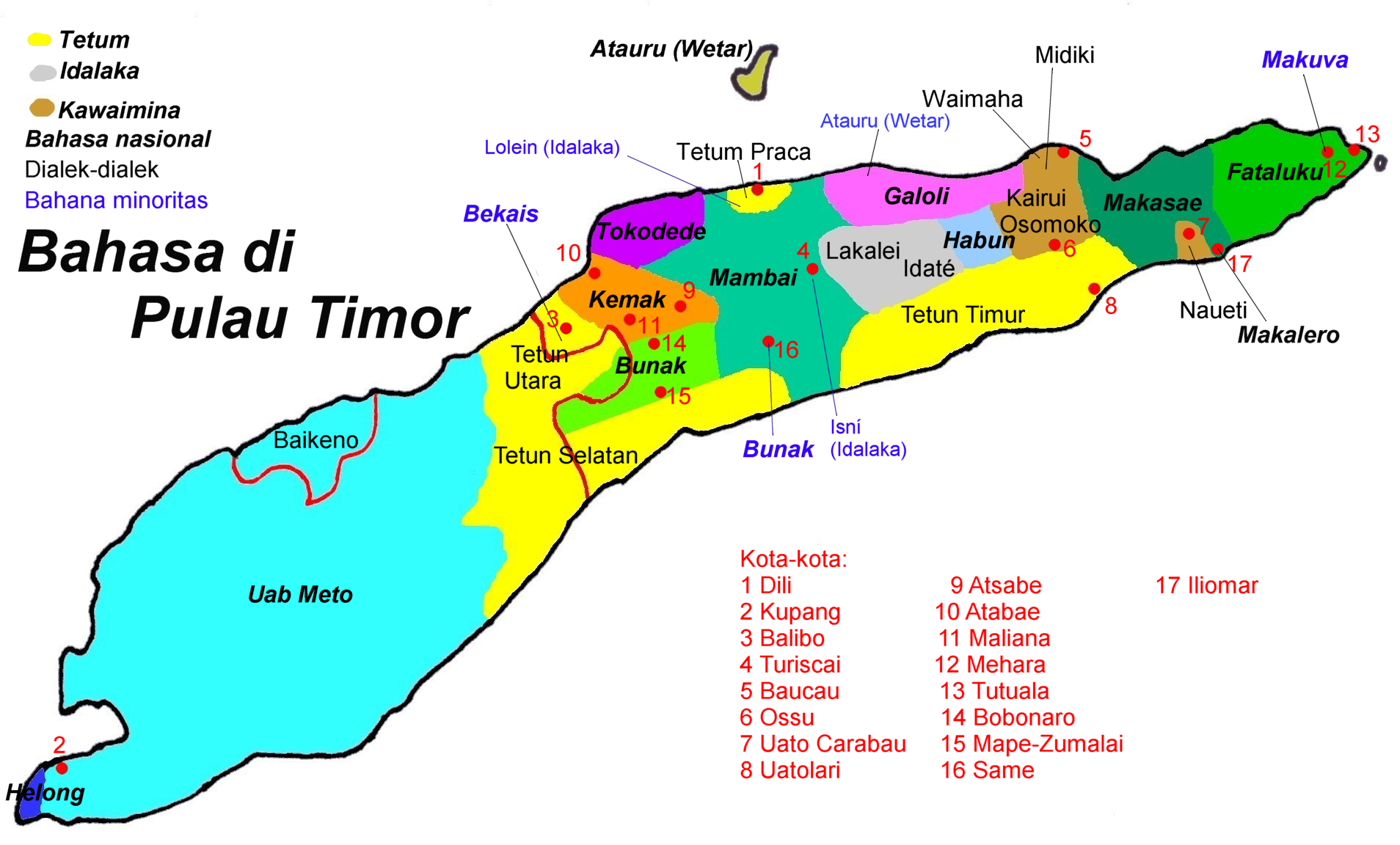 Languages of East Timor as of 2006 (Indonesian)